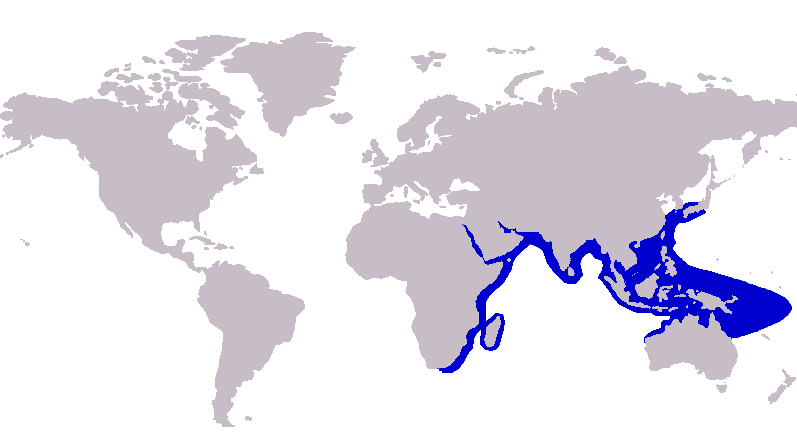 Distribution of blacktip trevally, Caranx heberi using map based on GDFL image